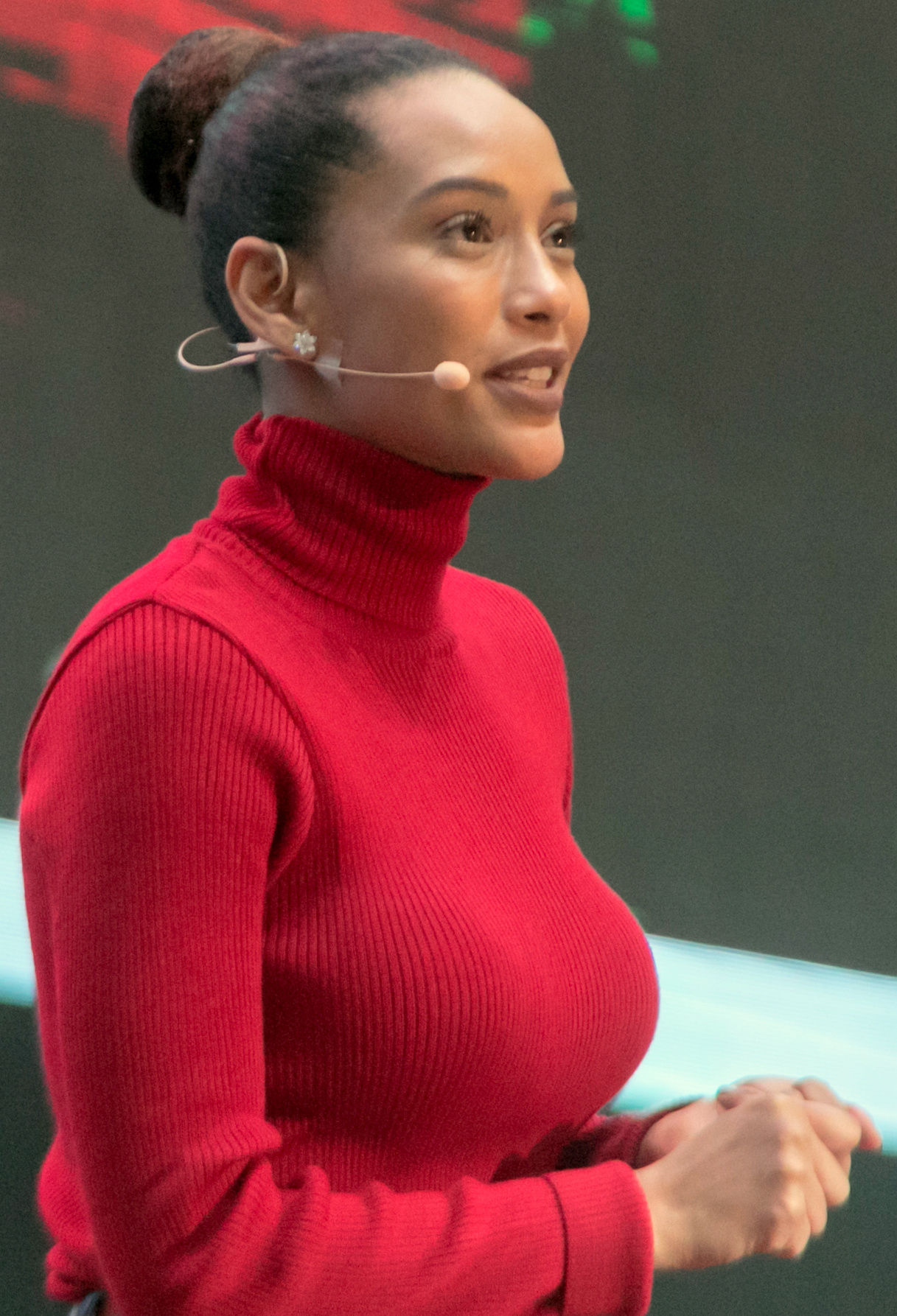 Taís Araújo lors du TEDxSaoPaulo le 12 août 2017.